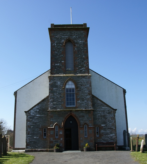 Whithorn Priory, Whithorn, Dumfries and Galloway, Scotland - parish church (1822)